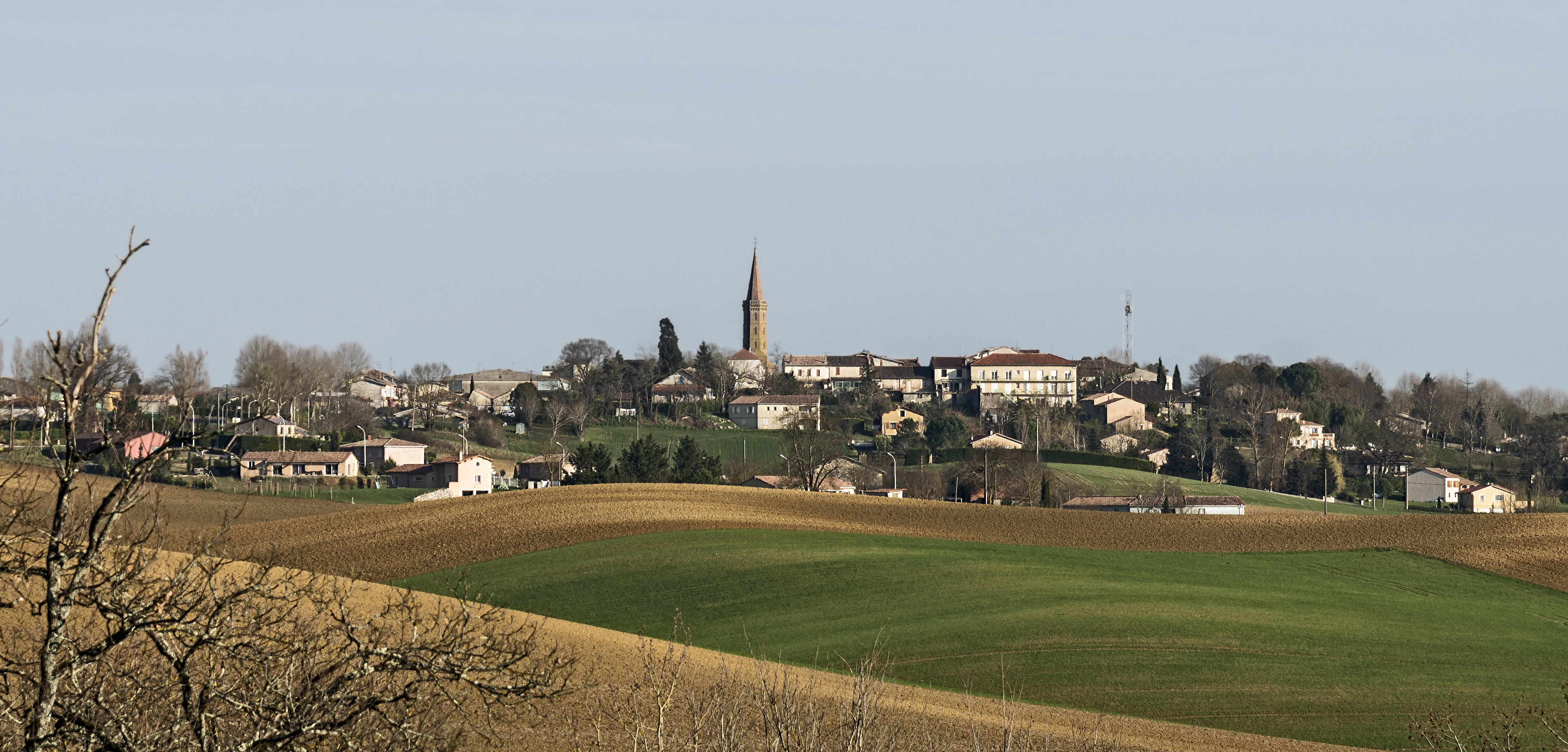 Cadours, Haute-Garonne, France, view from the Château de Laréole